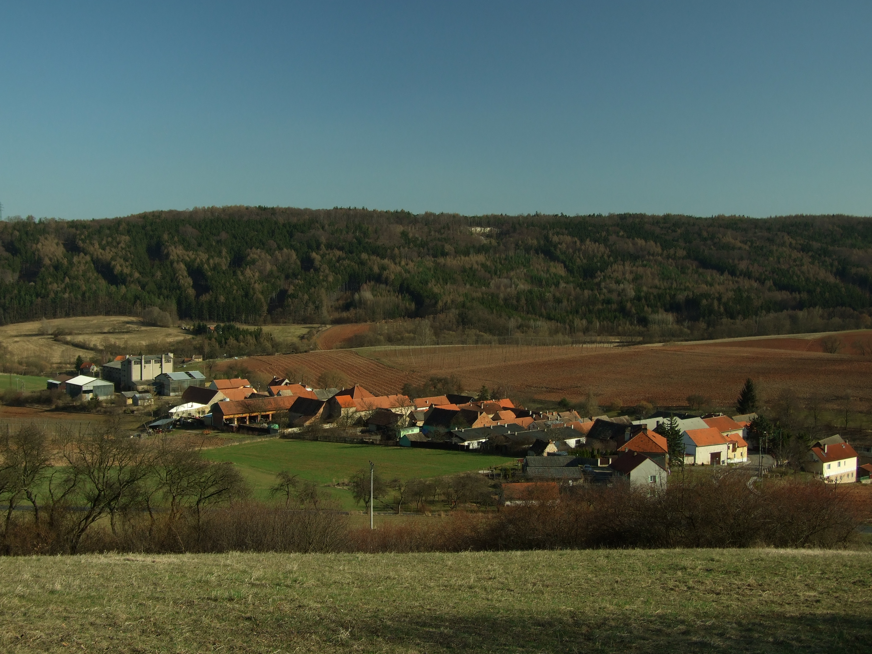 Smilovice village, Rakovník District. Central Bohemian Region, CZ